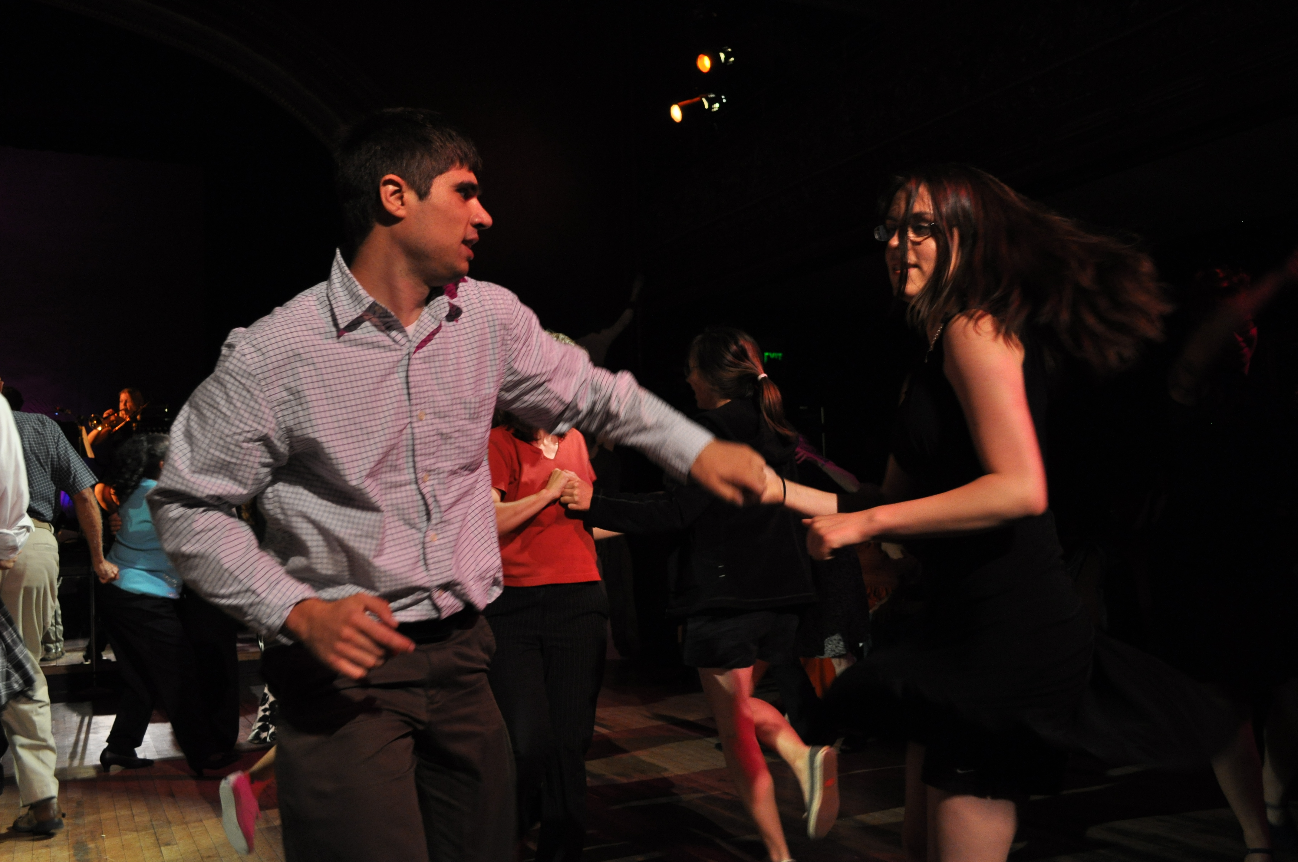 Picture taken at at Masters of Lindy Hop and Tap, Century Ballroom, Oddfellows Temple, Pine Street, Capitol Hill, Seattle, Washington, USA. At the tail end of the Friday night Masters' Exhibition, there was a general invitation to the audience to come up and dance. This picture was taken during that period.